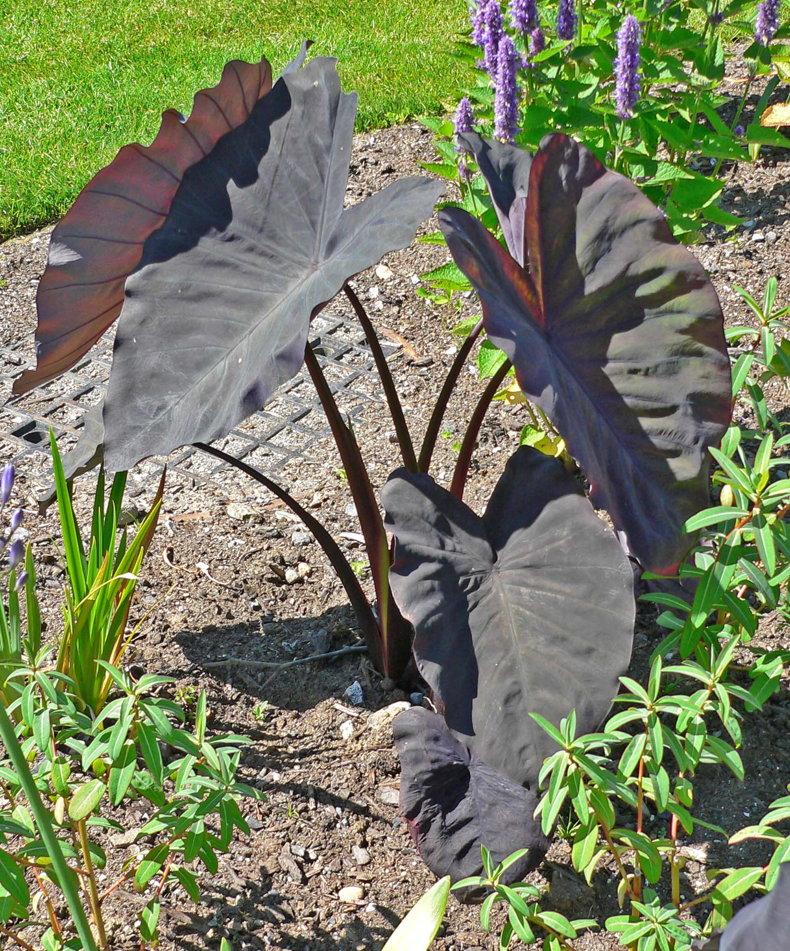 Photo of Colocasia esculenta 'Black Magic' at the VanDusen Botanical Garden in Vancouver